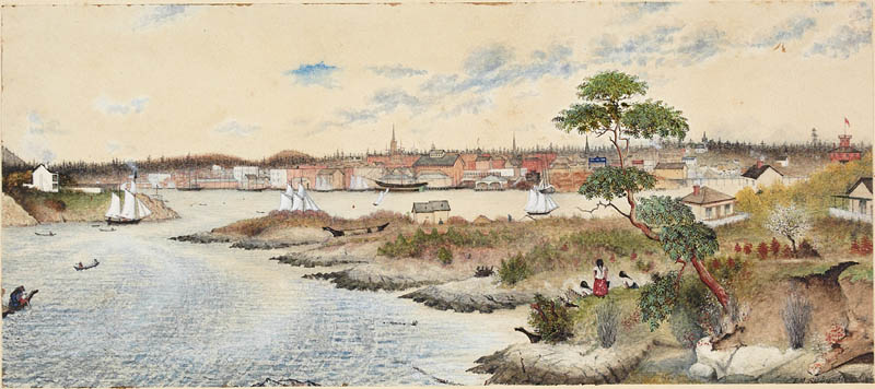 Work depicts a view of the harbour in Victoria, British Columbia. Ships are visible in the water as are architectural structures and people strolling along the shore. Victoria, British Columbia, 1864. Watercolour by Edward M. Richardson (1839-1874)